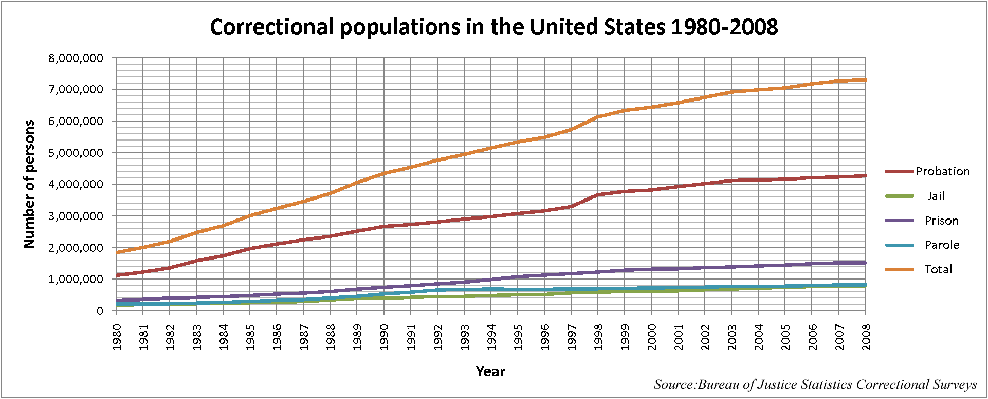 A graph that shows the Correctional populations in the United States from 1980 to 2008. It shows probation, jail, prison, and parole correlations. The data table is below.